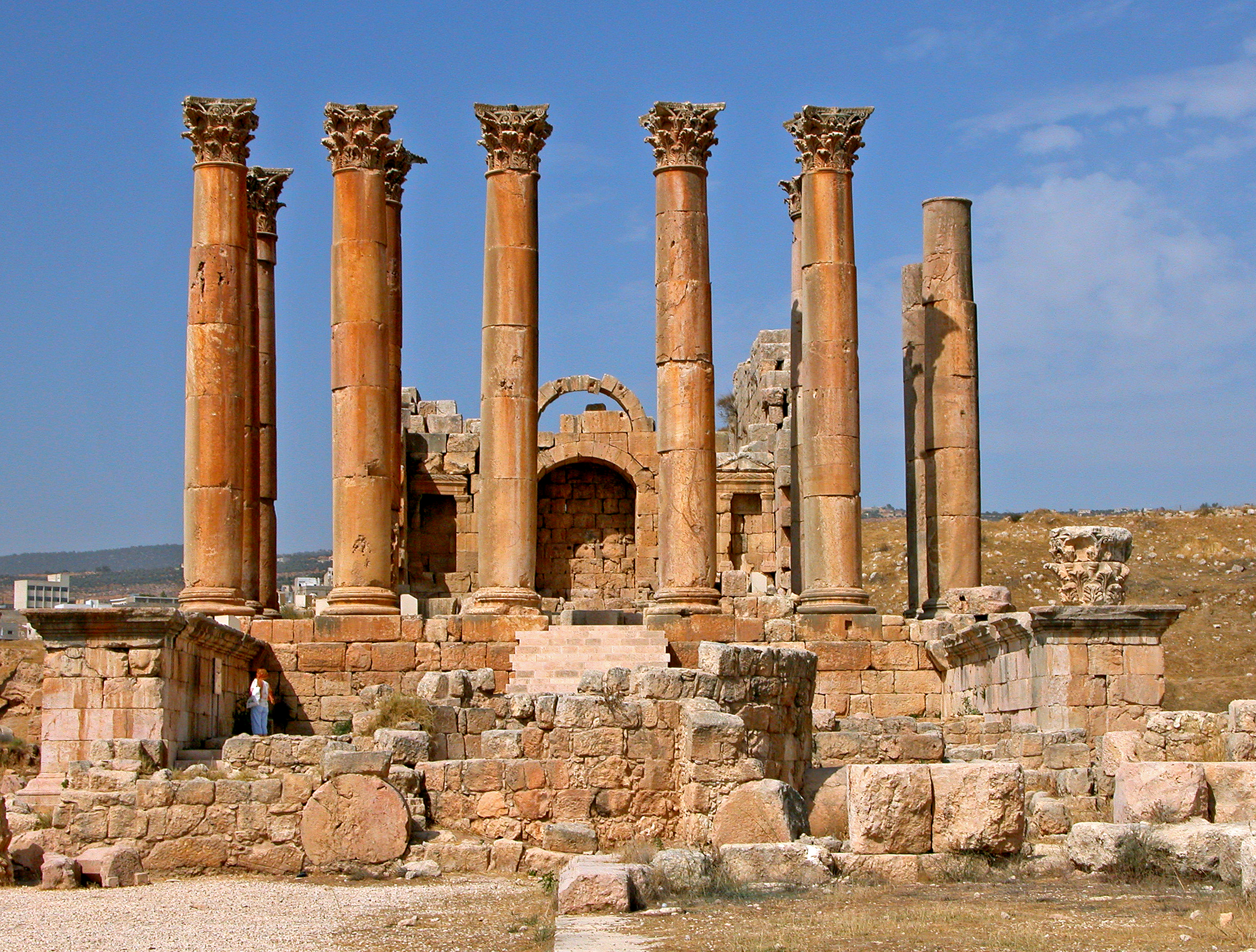 The Temple of Artemis was built in the 2nd century AD. The columns are 12 m high and each weigh 20-40 tons. Artemis was the virgin goddess of nature and the hunt, the Romans called her Diana. Jerash, Jordan